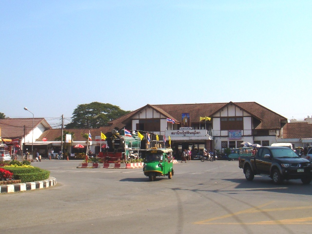 Station square, Phitsanulok.